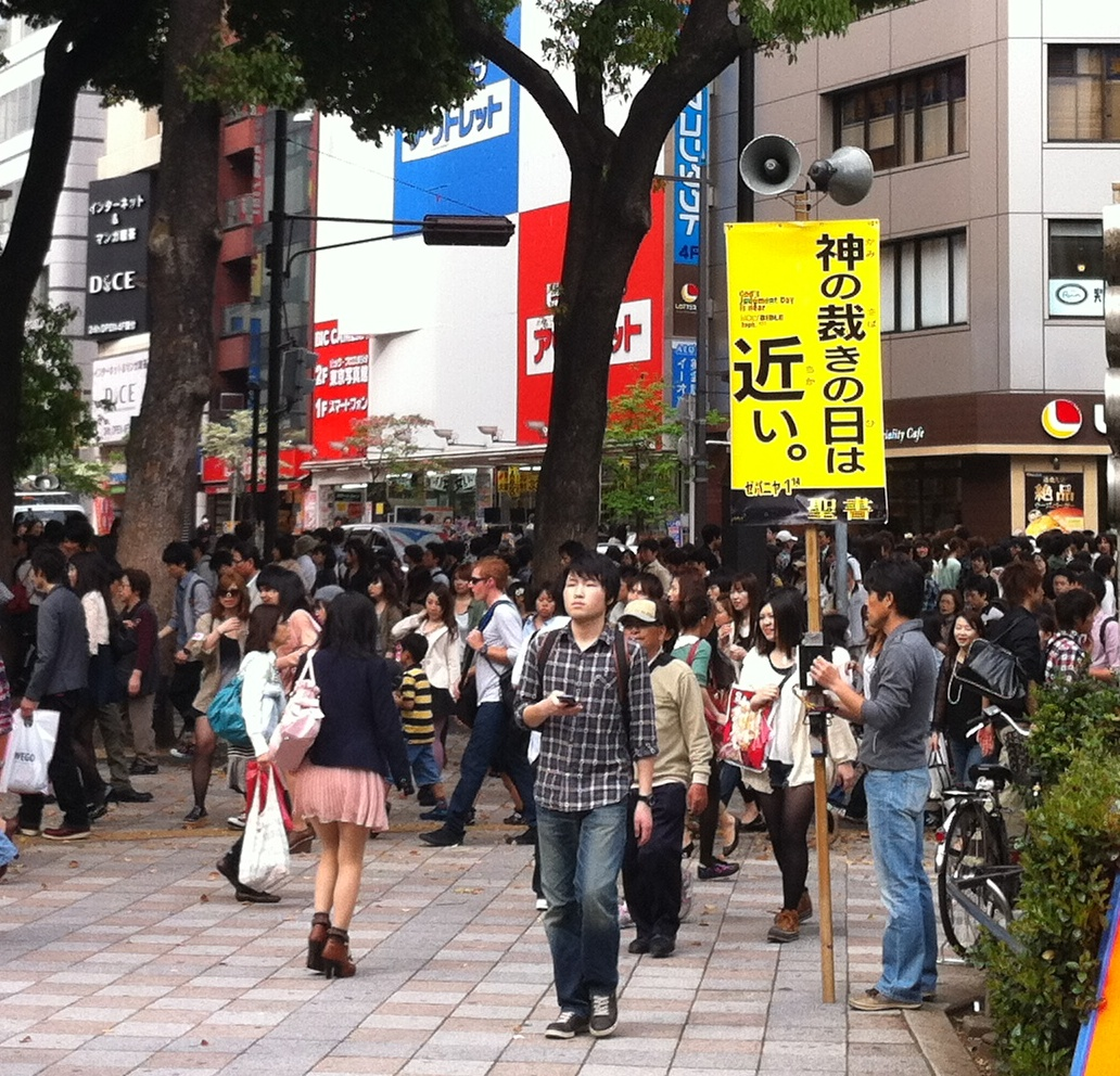 A Christian being an apostle in Ikebukuro, with a sign and a loud speaker.